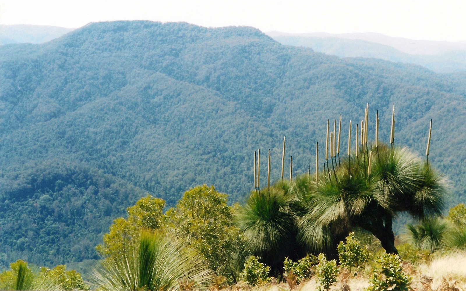 Mount Allyn from Cabrebald with Xanthorrhoea glauca (foreground right) NSW, Australia